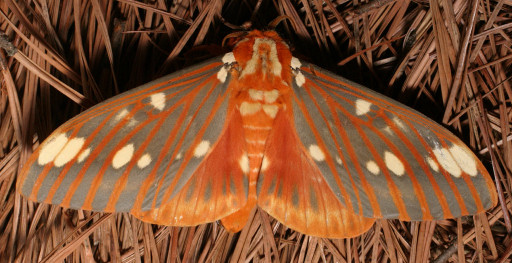 Royal Walnut Moth, Citheronia regalis. Location: Durham, North Carolina, United States